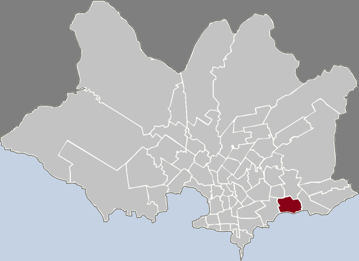 Map highlighting the given barrio in Montevideo.